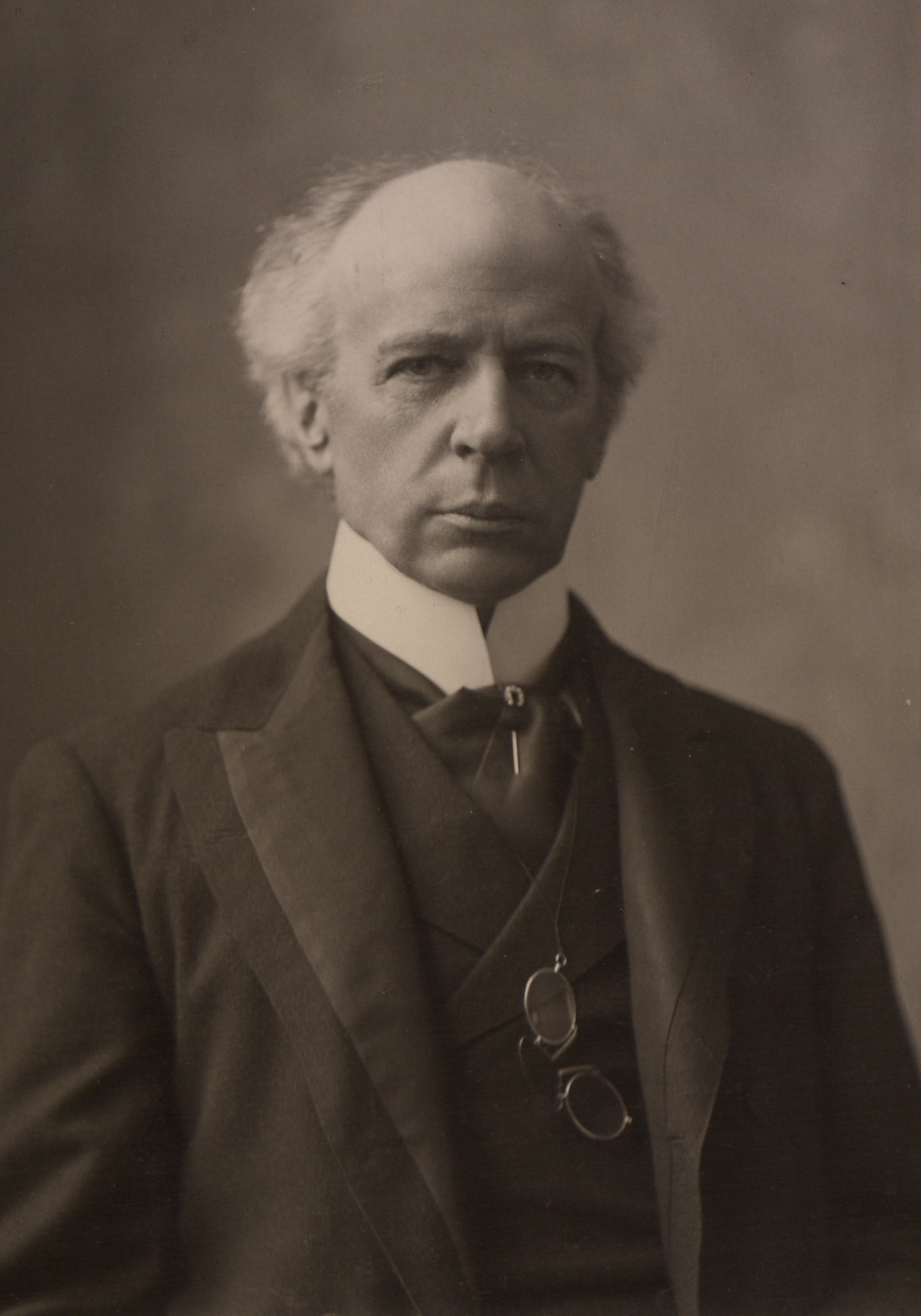 Tight crop of original photograph - "The Honourable Sir Wilfrid Laurier. Photo C."